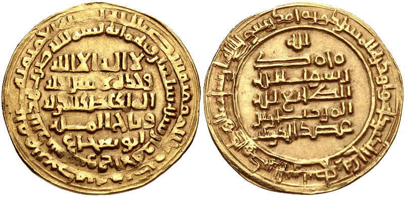 ISLAMIC, Persia (Pre-Seljuq). Buwayhids (Buyids). 'Adud al-Dawla Abu Shuja' Fanakhusraw. AH 367-372 / AD 977-983. AV Dinar (24mm, 4.25 g, 9h). Suq al-Ahwaz mint. Dated AH 370 (AD 980/1). Album 1551. VF.